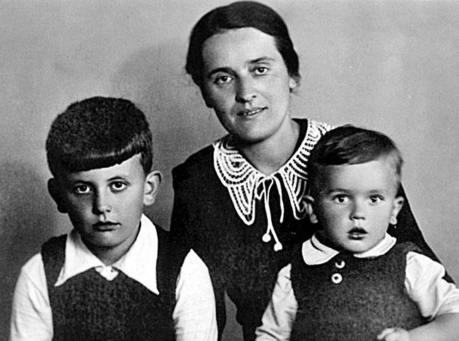 A photo of Stanislava Koljenšić, mother of Borislav and Slobodan Milošević.